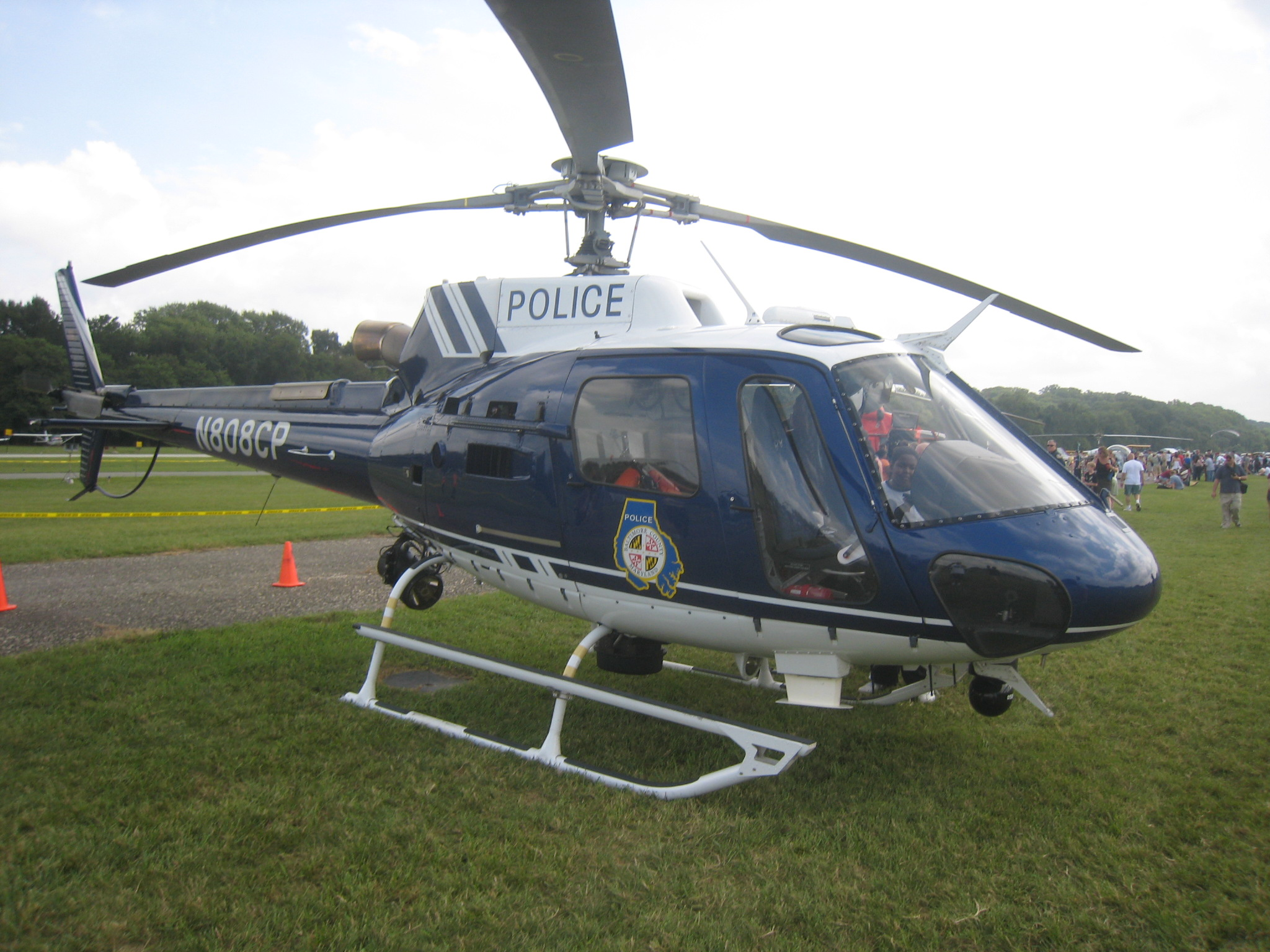 Baltimore County, Maryland Police Eurocopter AS350 at College Park Airport 100th Anniversay